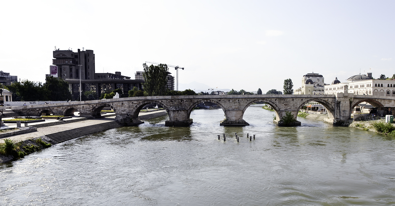 Stone Bridge in Skopje.